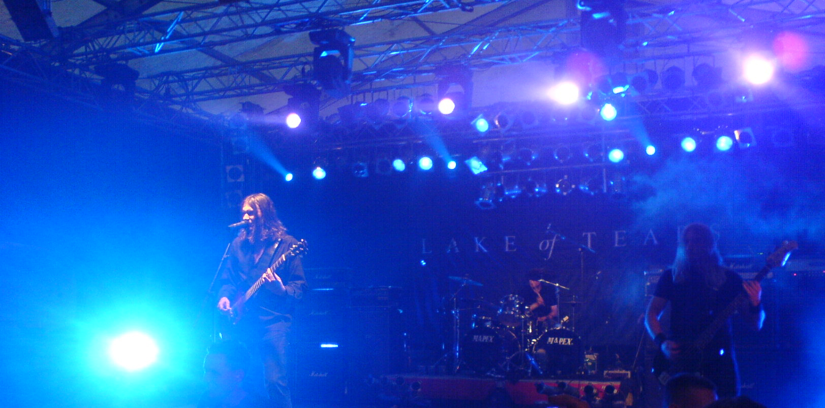 Metal band Lake of Tears at Wacken Open Air (Germany) August 2006.